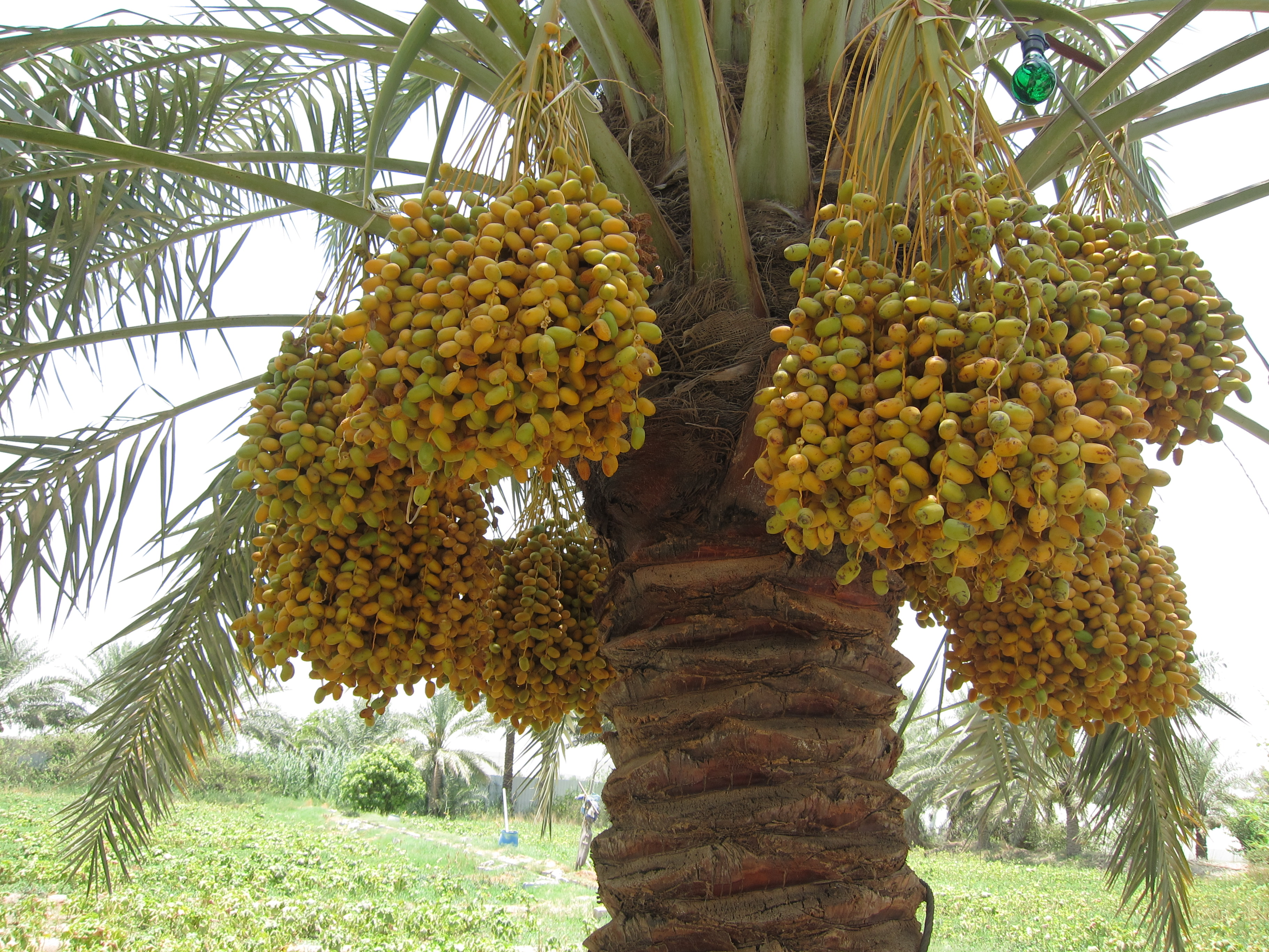 Date Palm ഈന്തപ്പന ഈന്തപ്പഴം ഈത്തപ്പഴം ഈന്തപഴം, ഈന്തപന